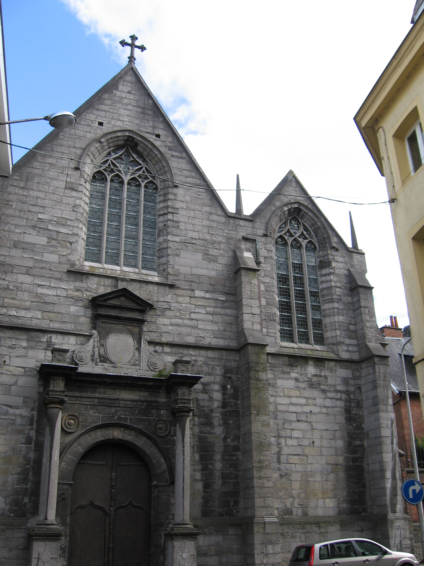 Jesuit church attached to the former college; built in the XVIIth century.